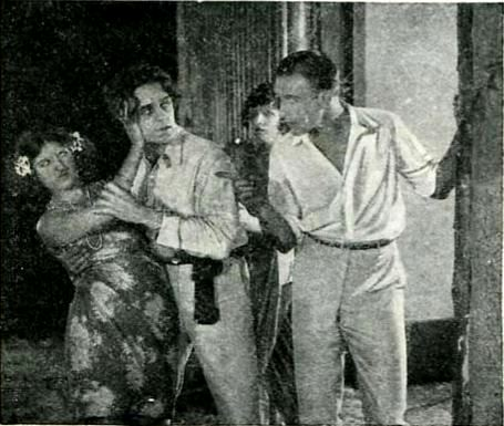 Still from the American silent film Honor Bound (1920) with Dagmar Godowsky, Edward Coxen, and Frank Mayo, on page 38 of the January 1921 Film Fun.